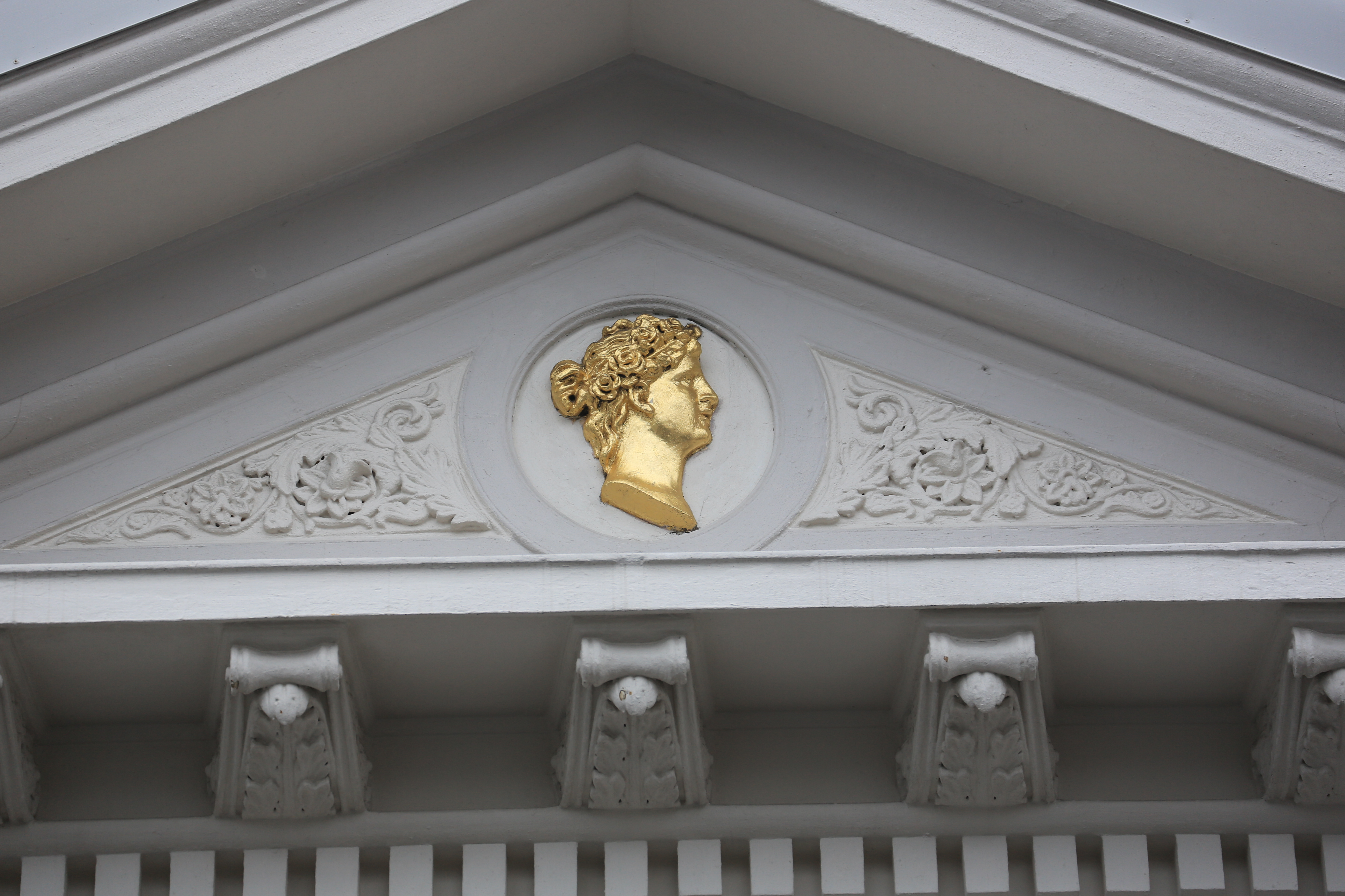 Arkitektenes hus in Oslo. Main building by M.J. Larsen, from 1877. Detail